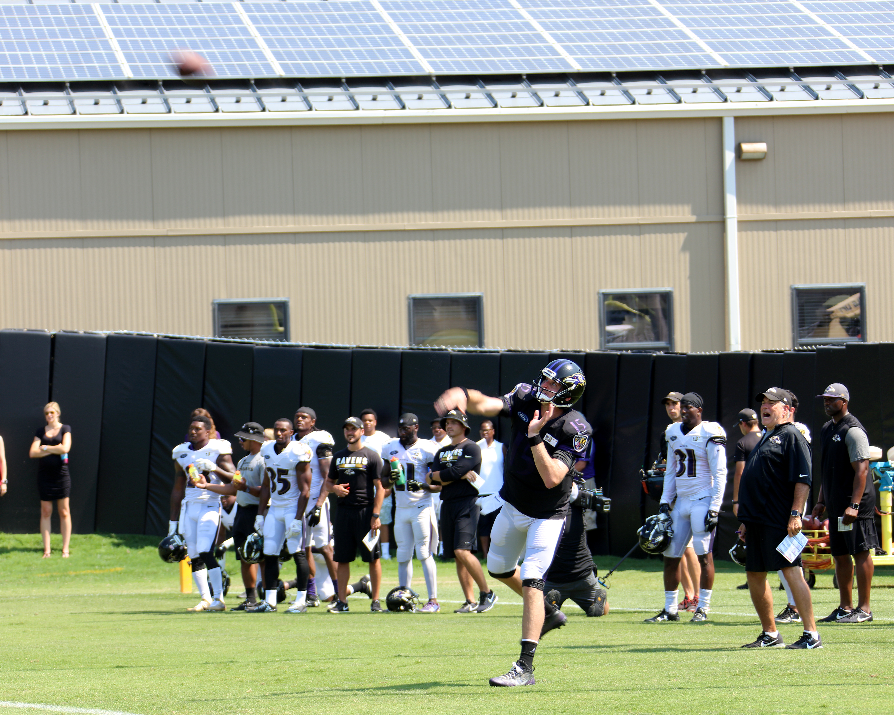 Baltimore Ravens quarterback, Ryan Mallett, at training camp on August 2, 2017.